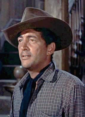 Cropped screenshot of Dean Martin from the trailer for the film Rio Bravo (1959).